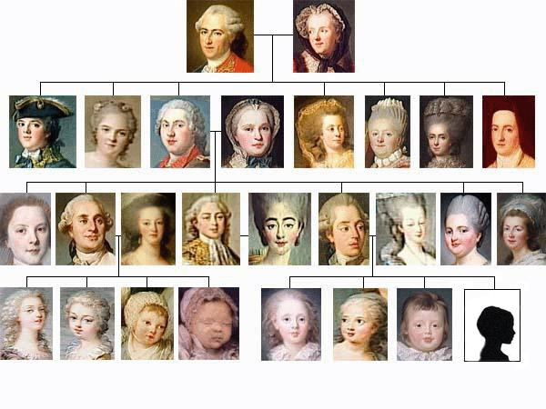 Family Tree of Marie Therese Charlotte of France, Madame Royale, first child and first daughter of King Louis XVI. of France and Marie Antoinette of Austria, Queen of France, sister of Dauphin Louis Joseph Xavier of France and Dauphin Louis Charles of France